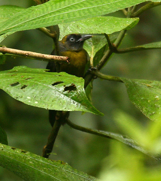 Dusky-faced Tanager (Mitrospingus cassinii) at Quebrada Gonzalez Station, Parque Nacional Brauilio Carillo, Costa Rica on 9 July 2008.